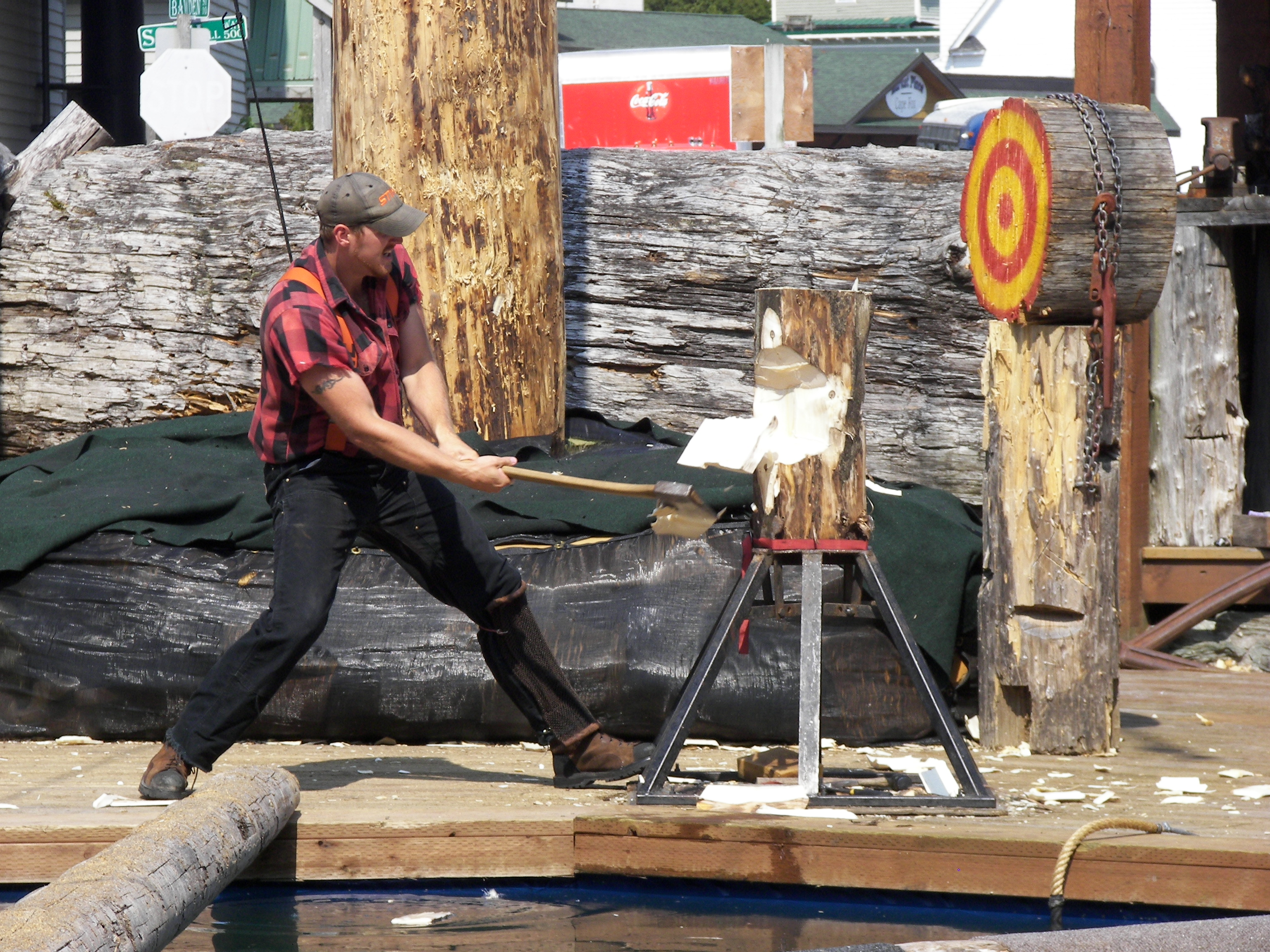 Lumberjack Andy Colle in the standing block chop event at the Great Alaskan Lumberjack Show in Ketchikan, Alaska.